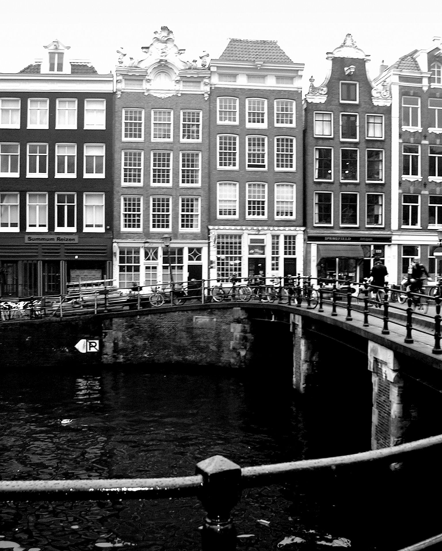 From right to left: Prinsengracht 120 (partially), 122, 124, 126 and 128ordered